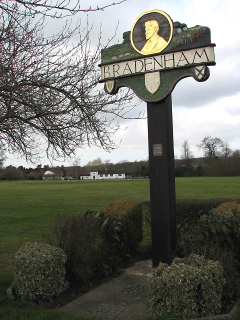 Bradenham - village green The village green is flanked by Church Street in the south, by Mill Street in the west and by the River Wissey in the east.